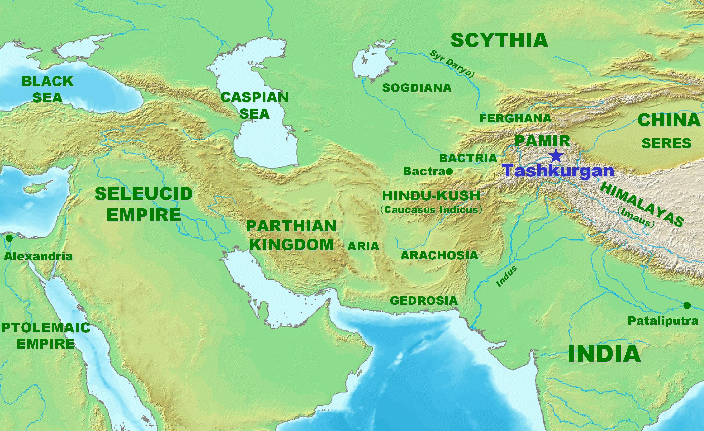 Location of Tashkurgan